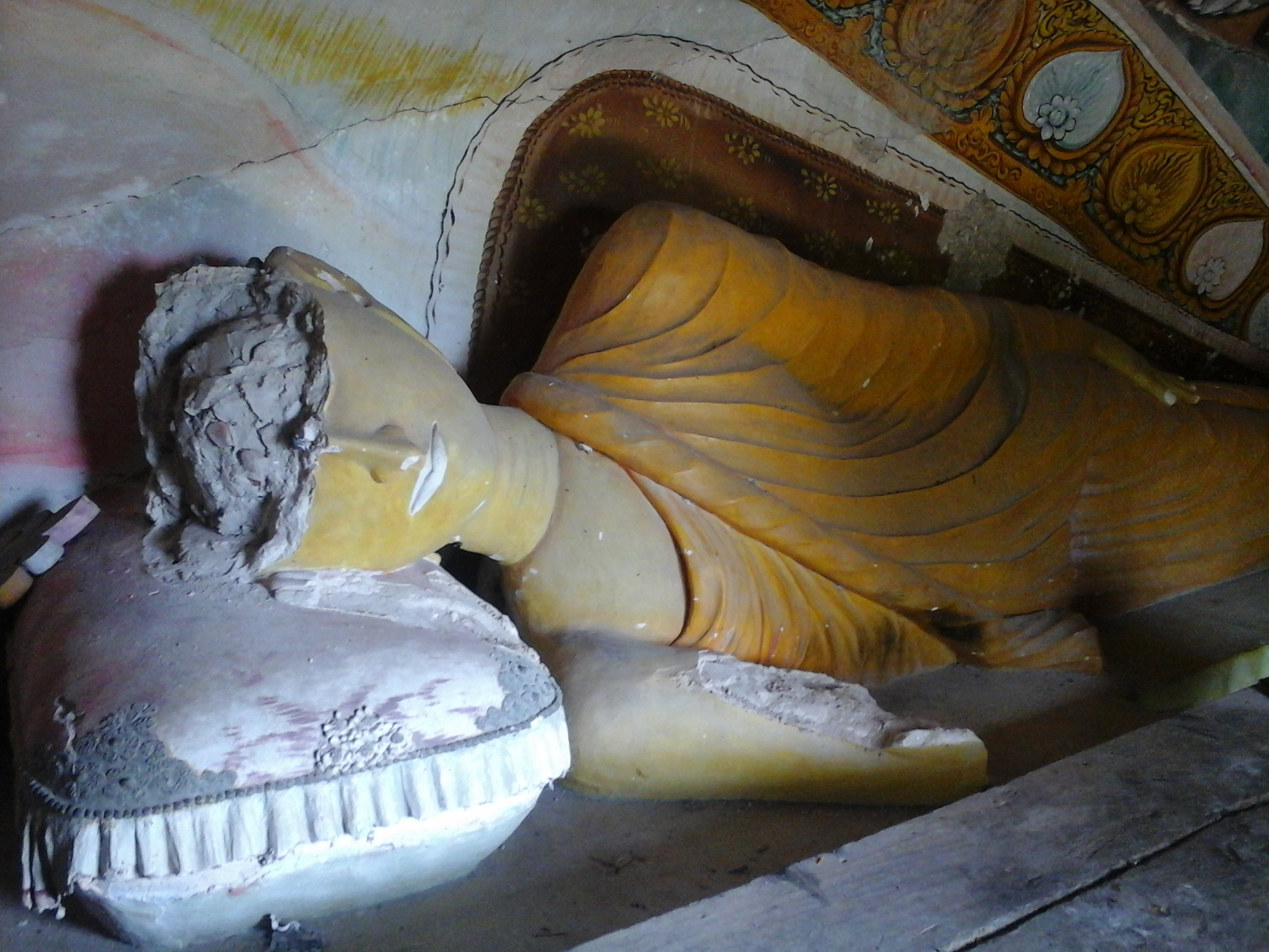 Buddha image at Paramakanda Raja Maha Vihara